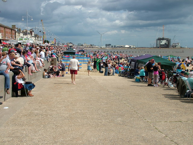 Lowestoft beach crowd. Looking north on South Beach, towards the harbour, where various features, including the wind turbine, can be seen. The funfair on the left is only present for the air show, as is most of the expectant crowd. Compare the numbers on the beach with the photo 1420543 after the rain arrived.